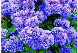 flowers